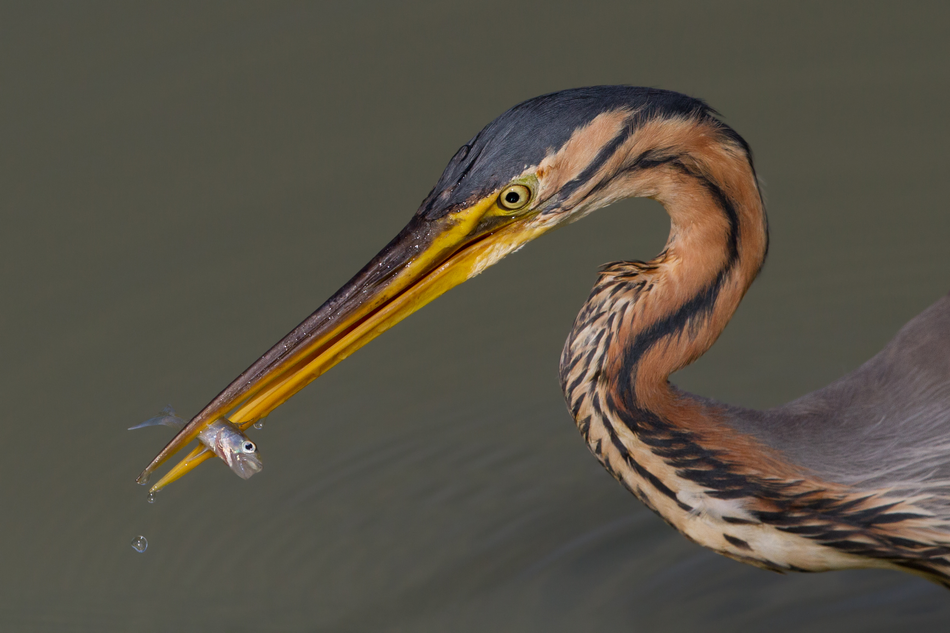 Adult purple heron (Ardea purpurea) capturing a zander (Sander lucioperca) fry.